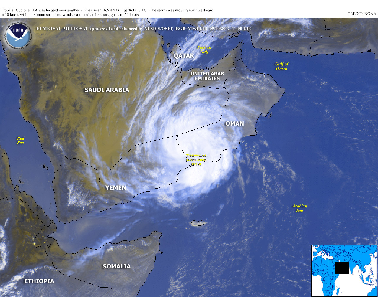 Tropical Cyclone 01A was located over southern Oman near 16.5N 53.6E at 06:00 UTC. The storm was moving northwestward at 10 knots with maximum sustained winds estimated at 40 knots, gusts to 50 knots.